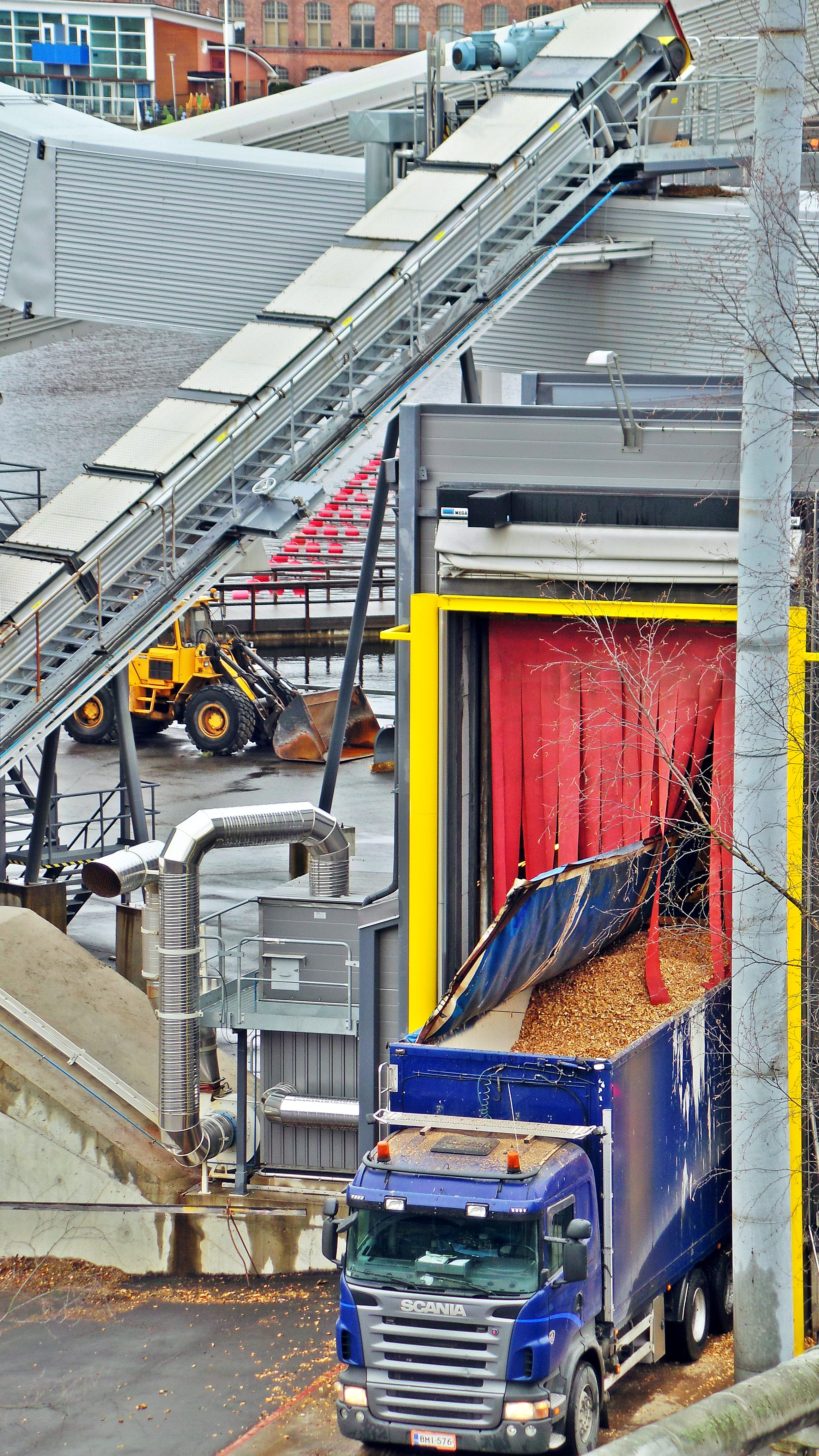 A truck unloading wood and/or peat for the Naistenlahden voimalaitos